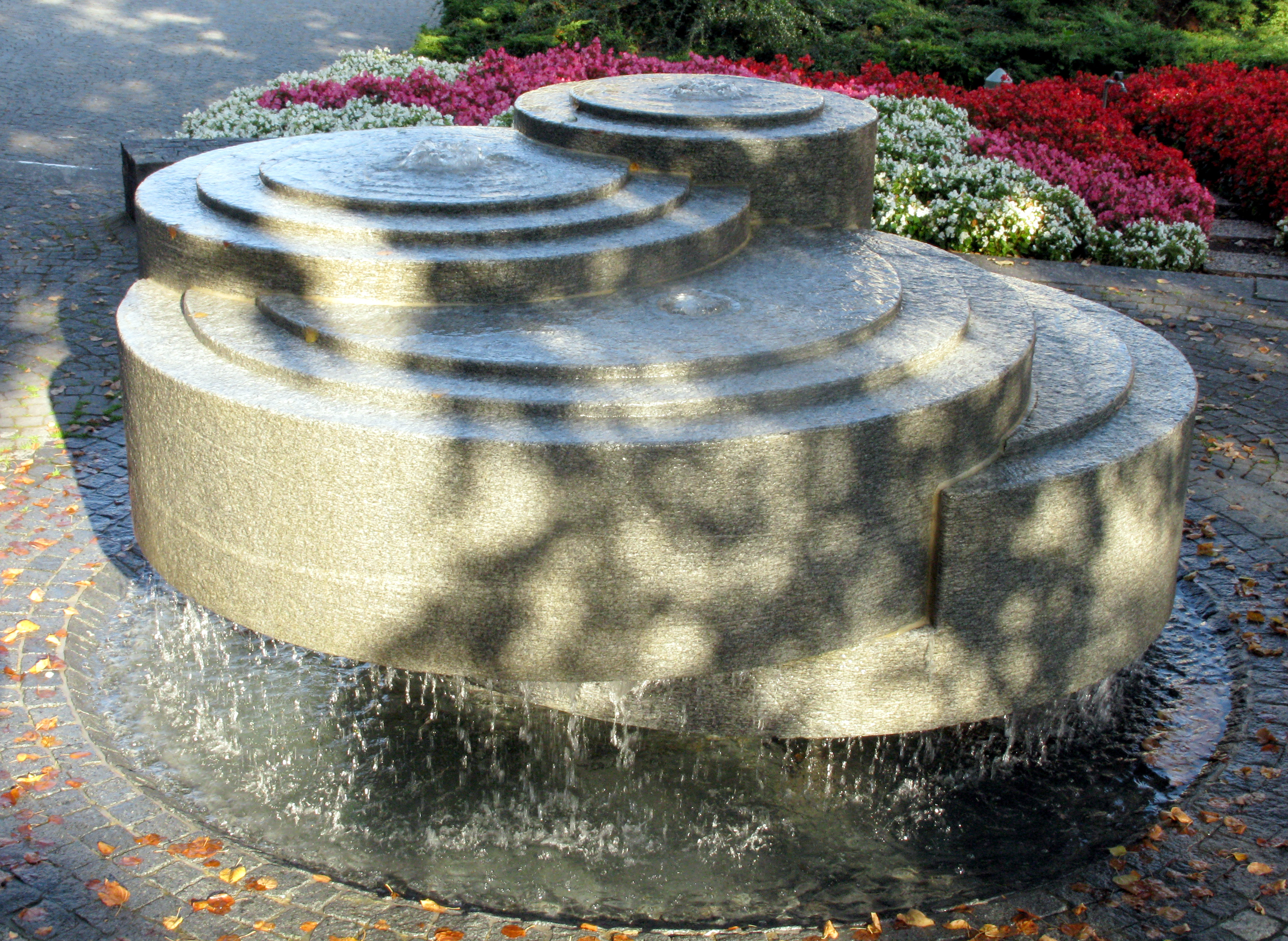 Neuenburg am Rhein, Fountain made by Bruno Knittel